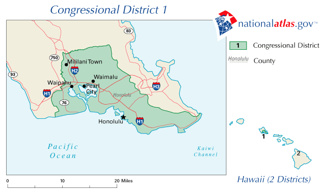 Congressional District 1 of Hawaii for the 108th Congress. Also available in pdf format.